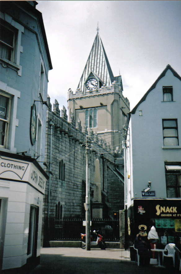 The Church of Ireland Collegiate Church of St. Nicholas is the largest surviving medieval church in Ireland. (C) Gerry Lynch, 2000.